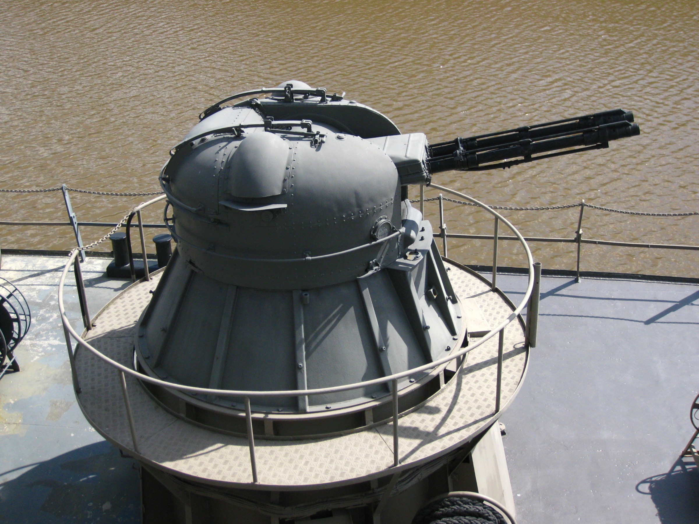 Forward AK-230 mount on finnish minelayer Keihässalmi.